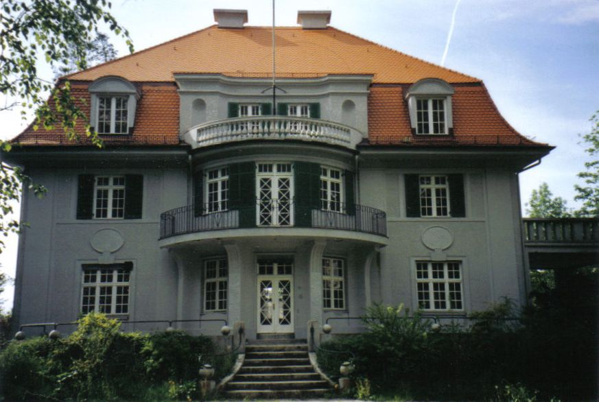 Thomas Mann mansion set